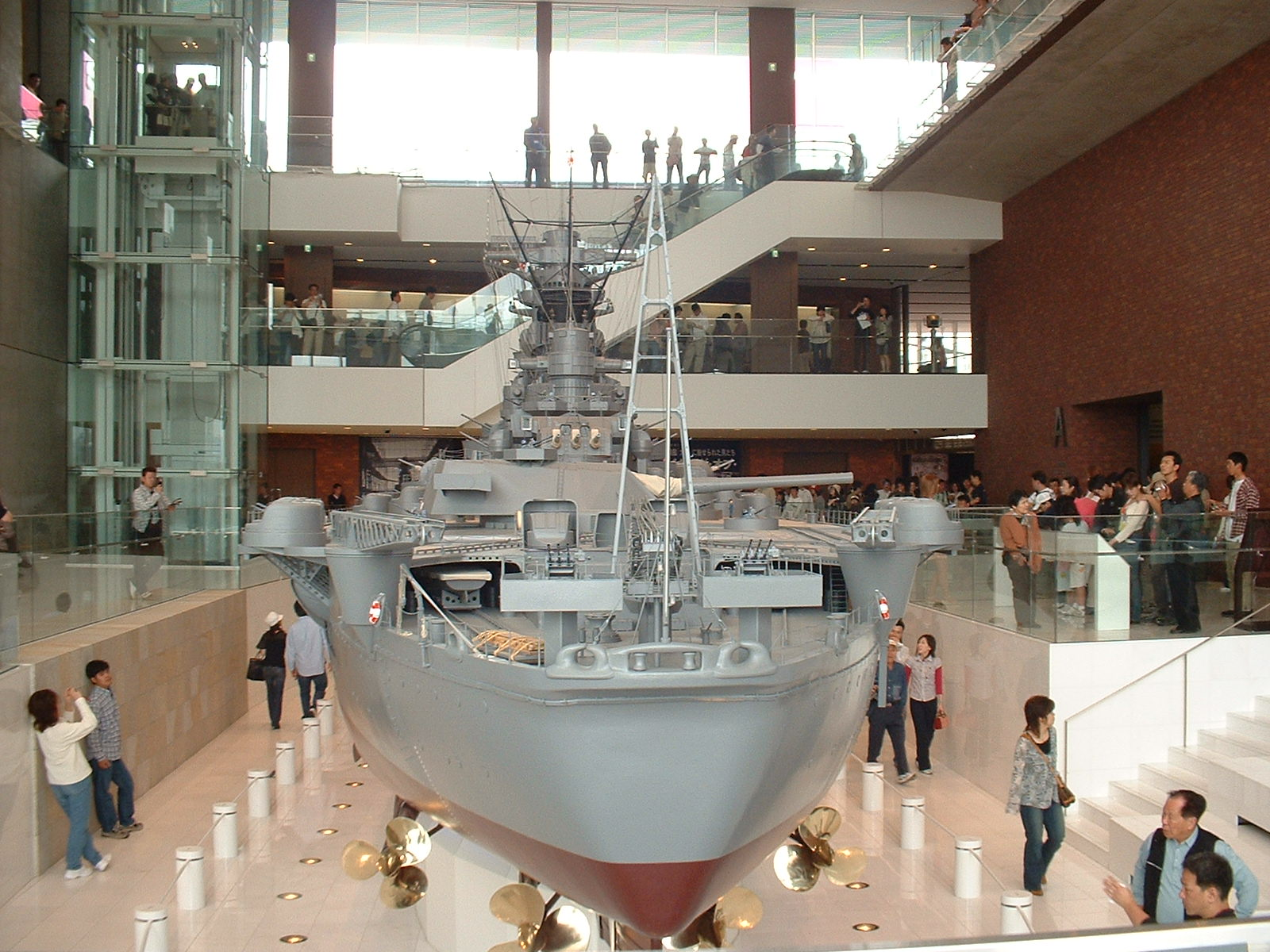 A contributor photograph of the one-tenth model of battleship Yamato (Japan navy) May, 2006.